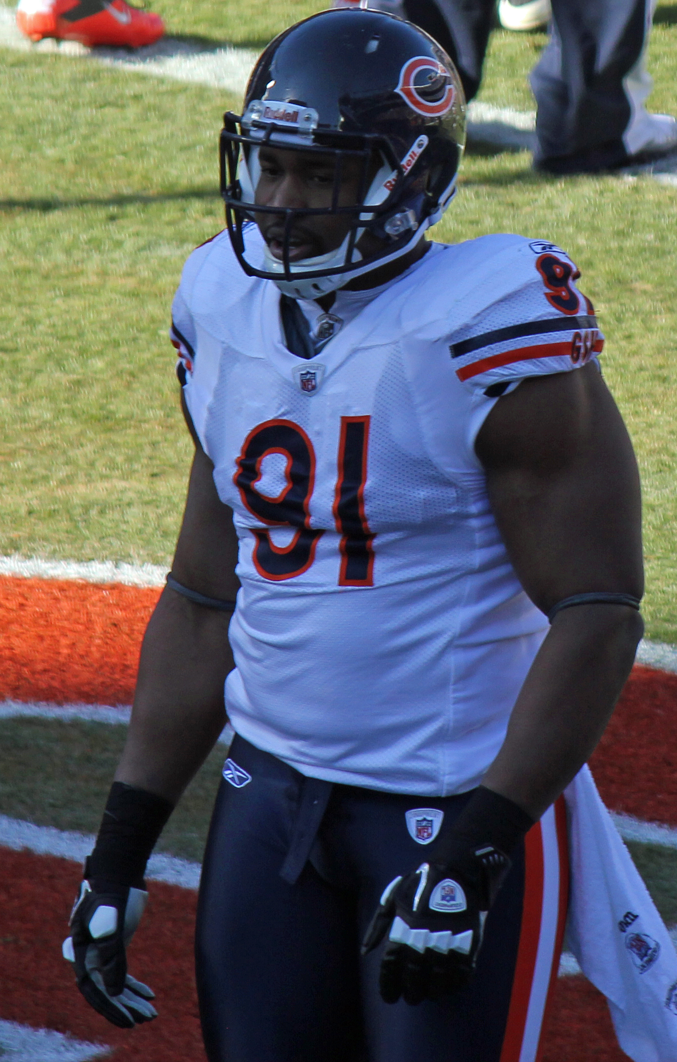 Amobi Okoye, a player on the National Football League.